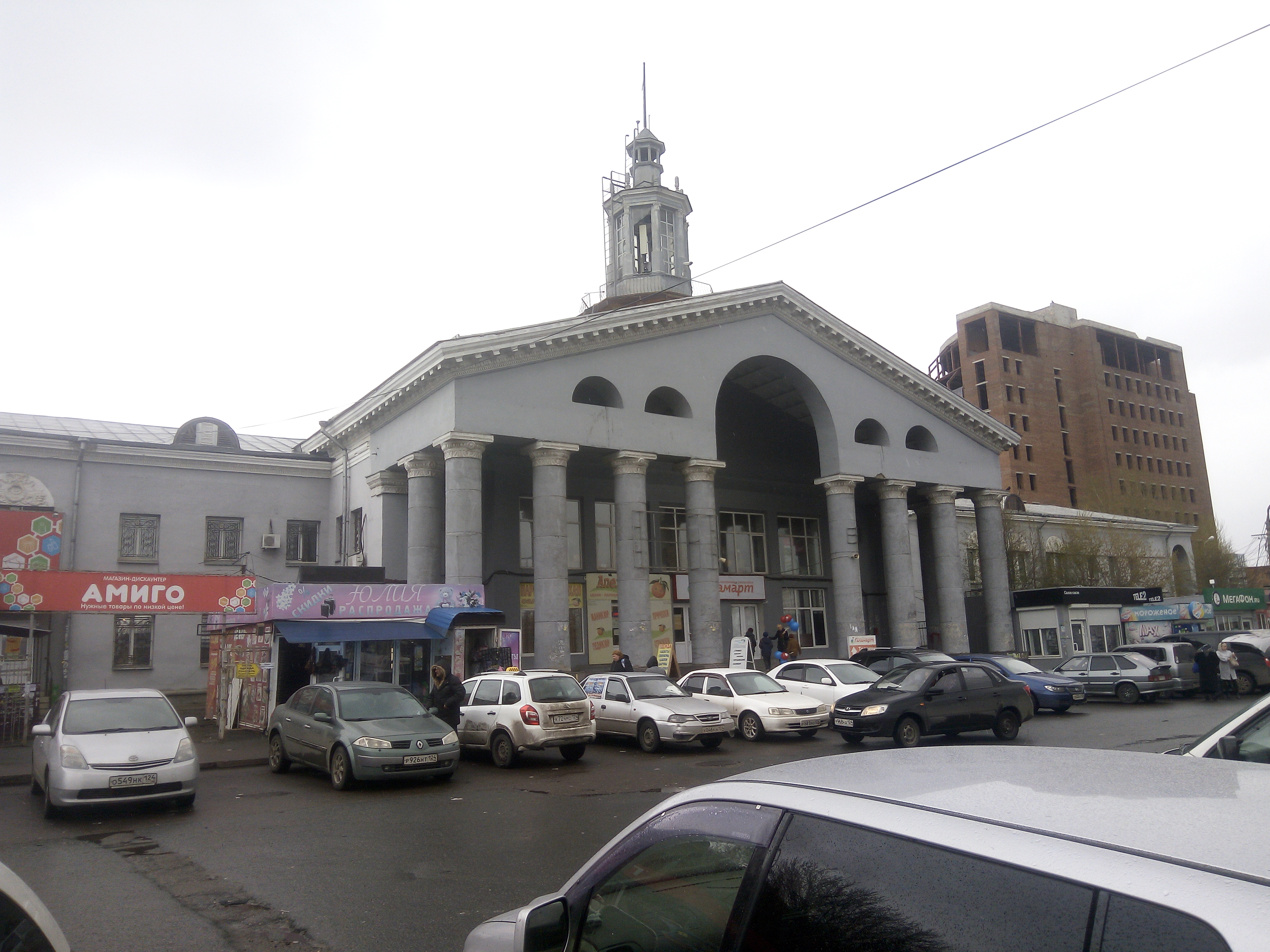 Air terminal of first Krasnoyarsk airport, intercity bus station now